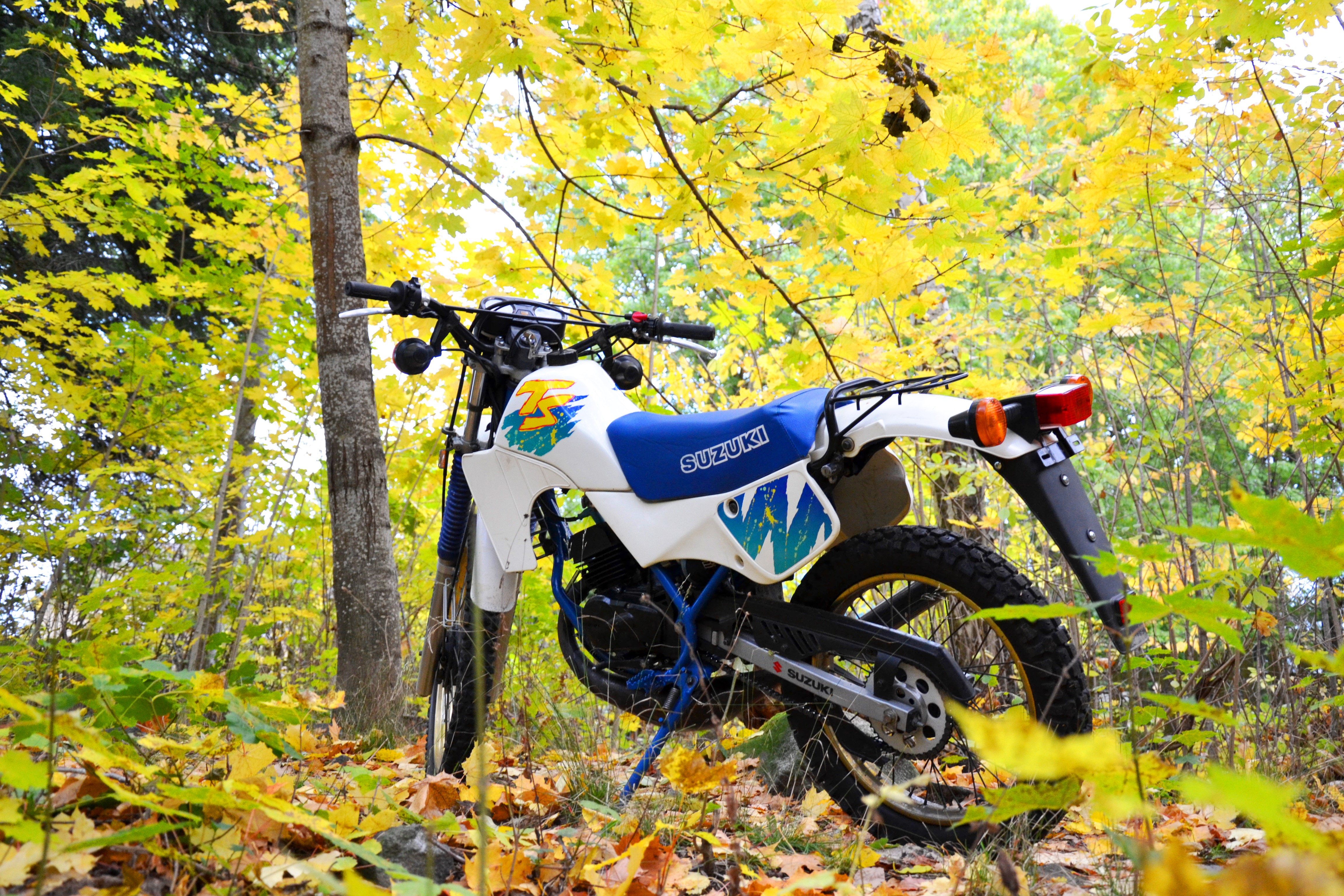 Suzuki TS50X